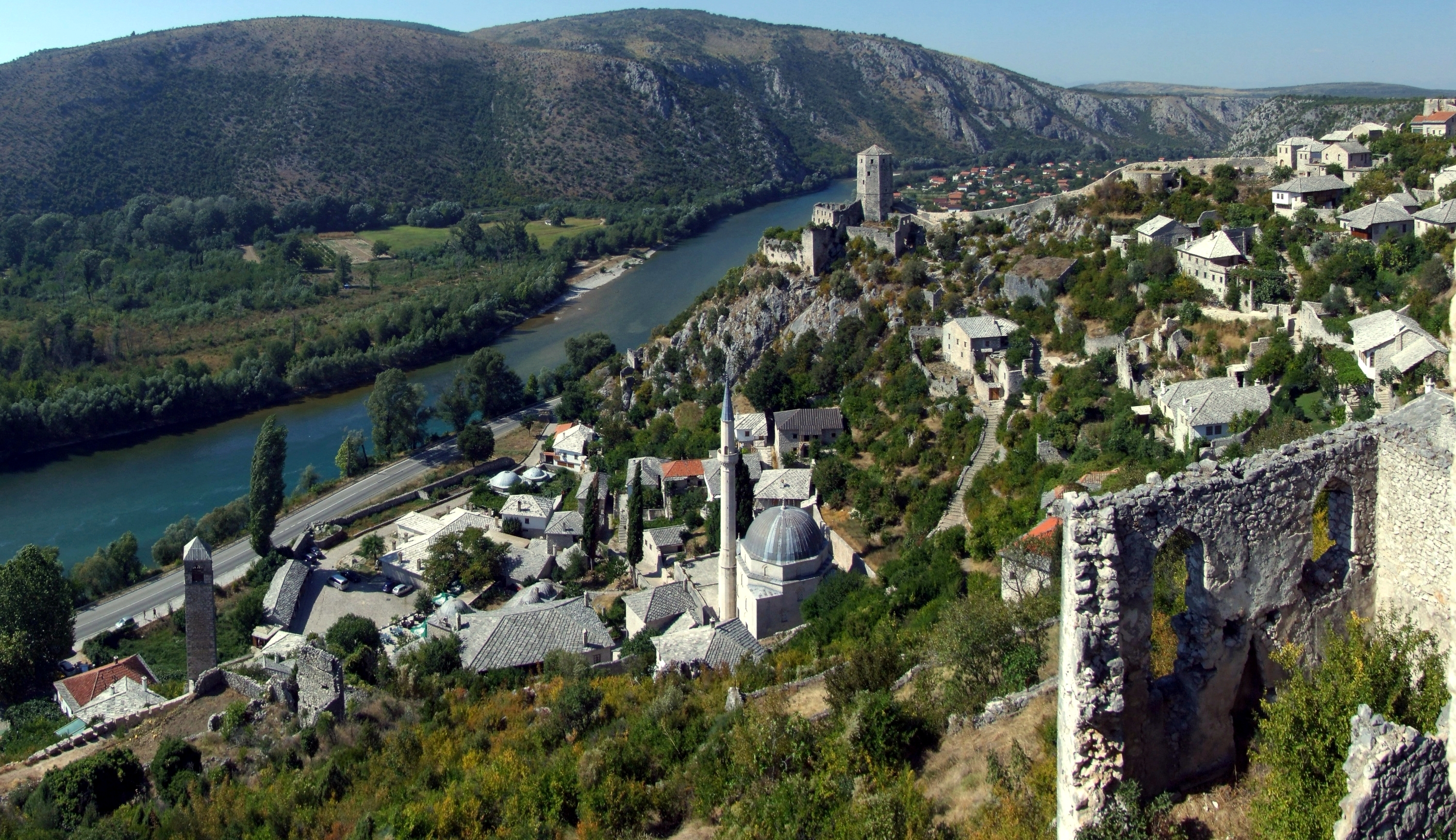 Počitelj, Bosnia and Hercegovina.